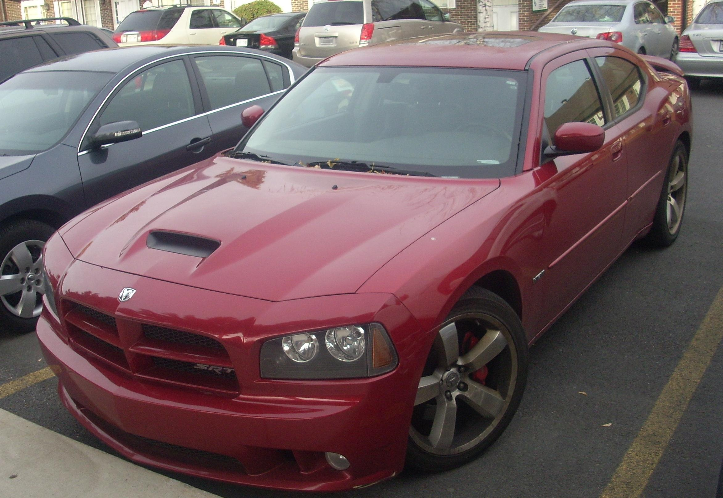 2006-2008 Dodge Charger photographed in Montreal, Quebec, Canada.